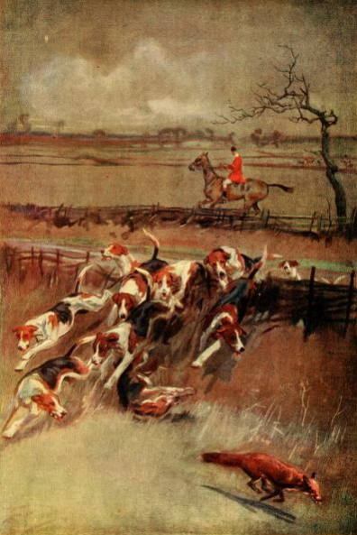 Fox-hunting, as painted by Lionel Edwards